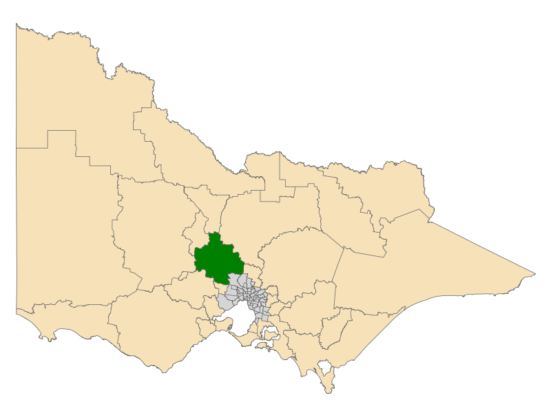 Location of the Electoral District of Macedon (dark green) in the state of Victoria, Australia. These boundaries were used for the Victorian state election on 29 November 2014.